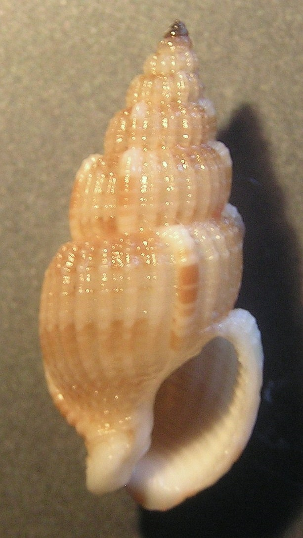 Antillophos varicosus (Gould, 1849) (synonym: Phos varicosus), a true whelk from the fazmily Buccinidae; Philippines